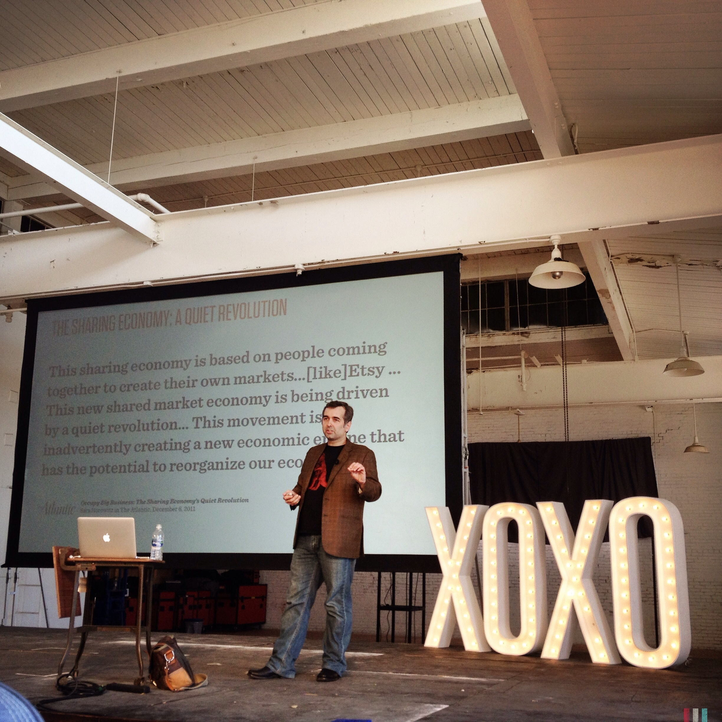 Chad Dickerson, CEO of Etsy, speaking at XOXO Festival in Portland, Oregon, in September 2012.